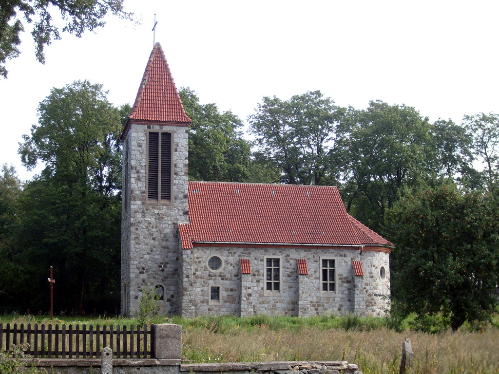 The church in Radawnica, Poland